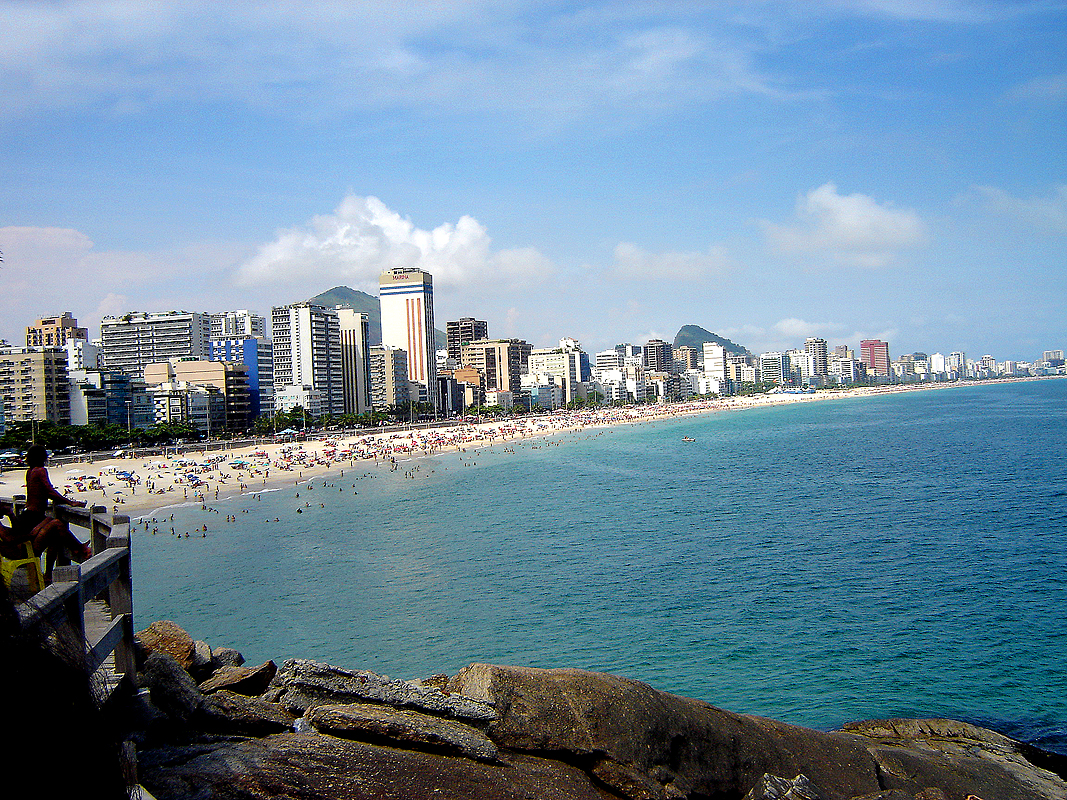 Leblon and Ipanema. Rio de Janeiro, Brazil.